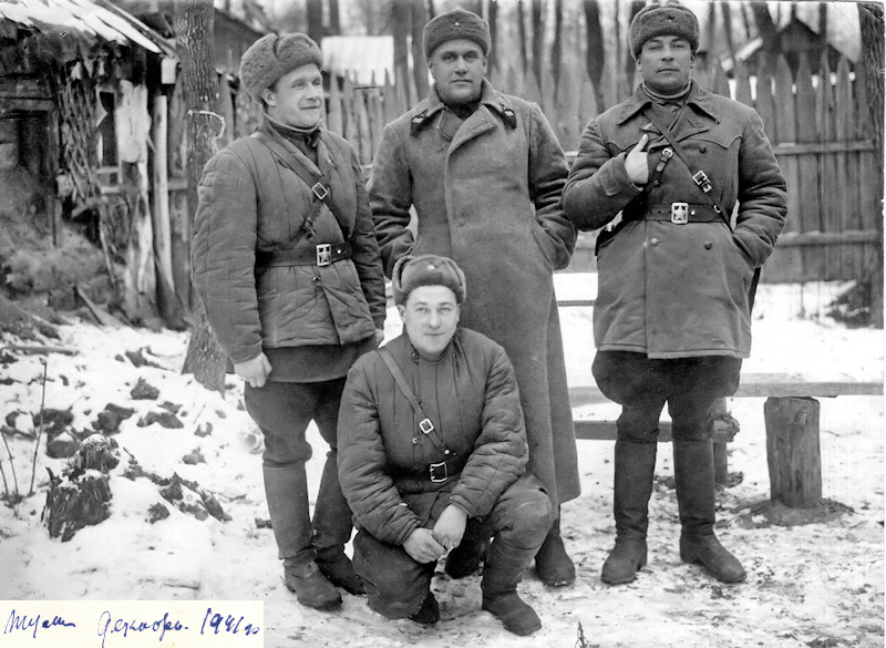 In the center: colonel A.A. Mavrin, on the right: I.F. Chvykov. Photo is made in December, 1941 in Tula. The signature is made by I.F.Chvykova's hand.